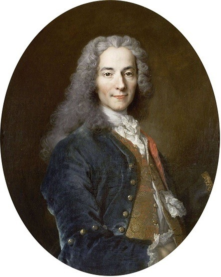 Depicted person: Voltaire – French writer, historian, and philosopher